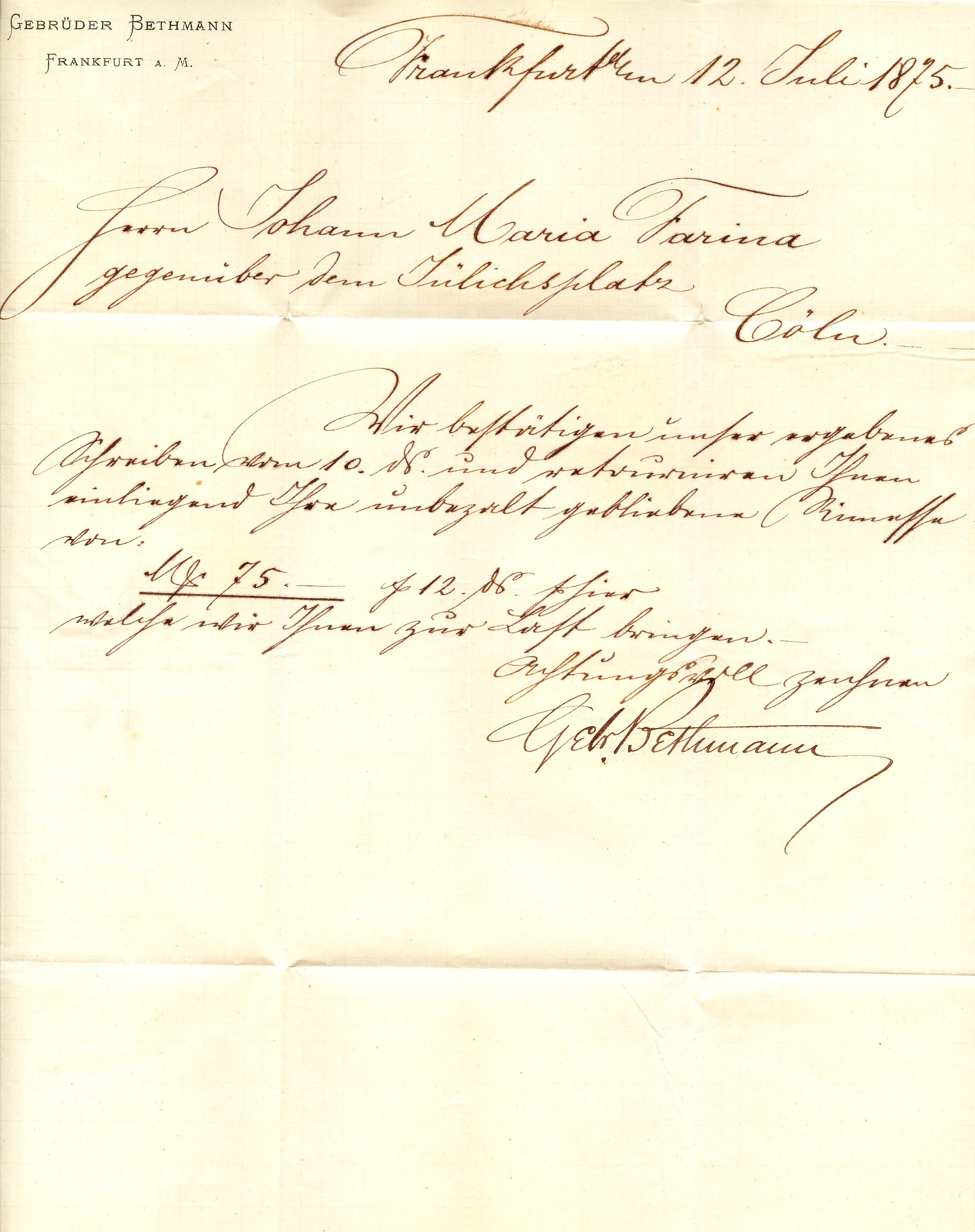 Letter Gebrüder Bethmann to Farina in Cologne: Frankfurt 12. Juli 1875 / Herrn Johann Maria Farina / gegenüber dem Jülichsplatz / Cöln / Wir bestätigen unser ergebenes / Schreiben vom 10. d(es Monat)s und retournieren / einliegend Ihre unbezahlt gebliebene Remisse / von / G(ulden) 75 z(um) 12. d(es Monat)s ... hier / welche wir Ihnen zur Last legen. / Achtungsvoll zeichen/Gebr. Bethmann